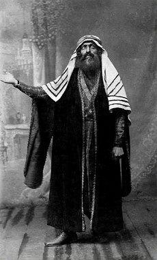 Pashayev as father of Majnun. Stage from the opera Leyla and Majnun (1908) by Uzeyir Hajibeyov